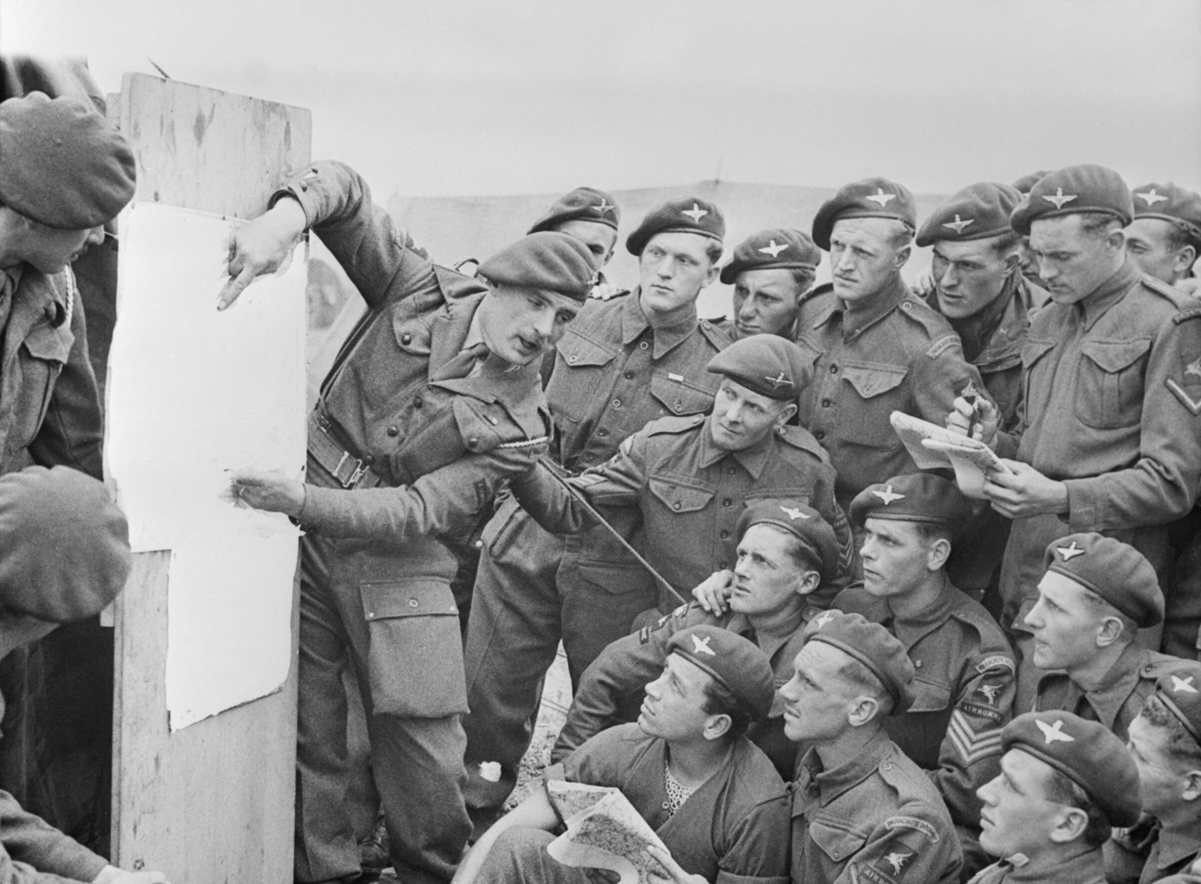 IWM caption : THE BRITISH ARMY IN THE UNITED KINGDOM 1939-45. Men of 22nd Independent Parachute Company, 6th Airborne Division for the invasion. Comment: This happened during preparation for Operation Tonga, part of the airborne invasion of Normandy. The officer briefing them is Lieutenant Robert Midwood[1]. Others have been identified[2], too.